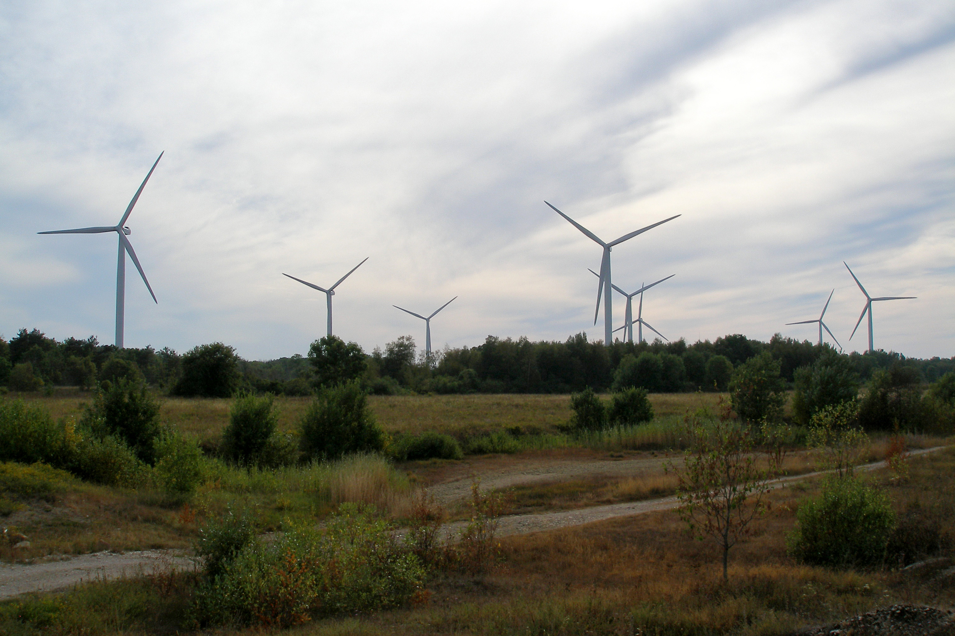 Pakri wind farm on Pakri peninsula, near the Estonian town of Paldiski.